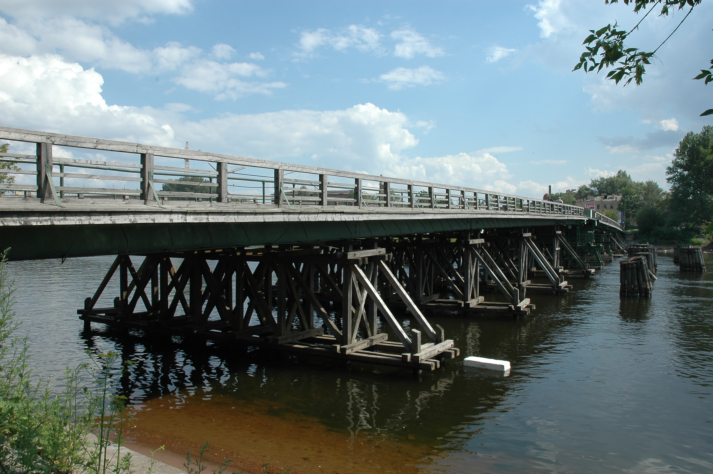 Lazarevskii bridge across Malaia Nevka in St Petersburg as seen from the water level (before reconstruction)